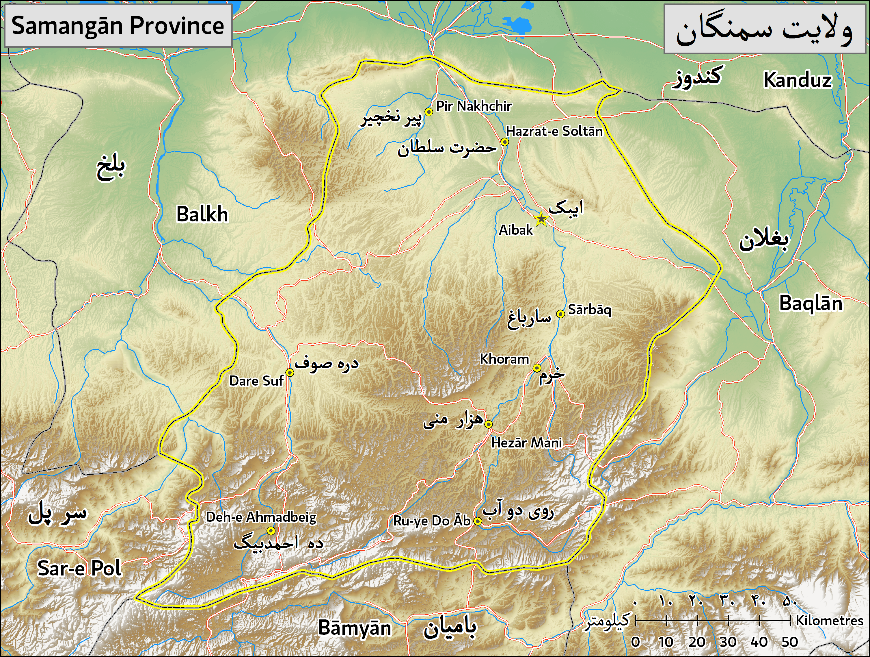 Map of Samangan Province showing relief, rivers, lakes, main towns, roads, and surrounding provinces both in English and in Dari/Persian.